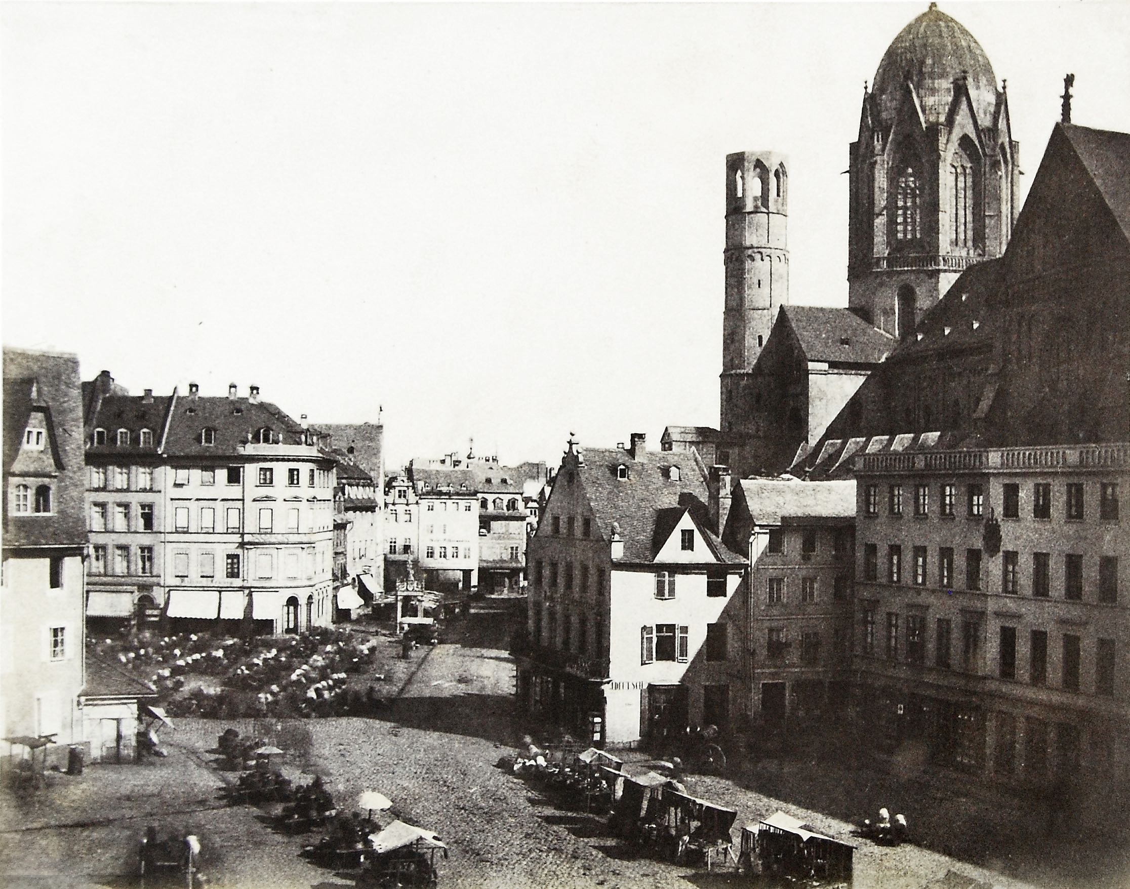 Market square and Höfchen of Mainz. The square forms one of the old city centers central places. A weekly market is held.